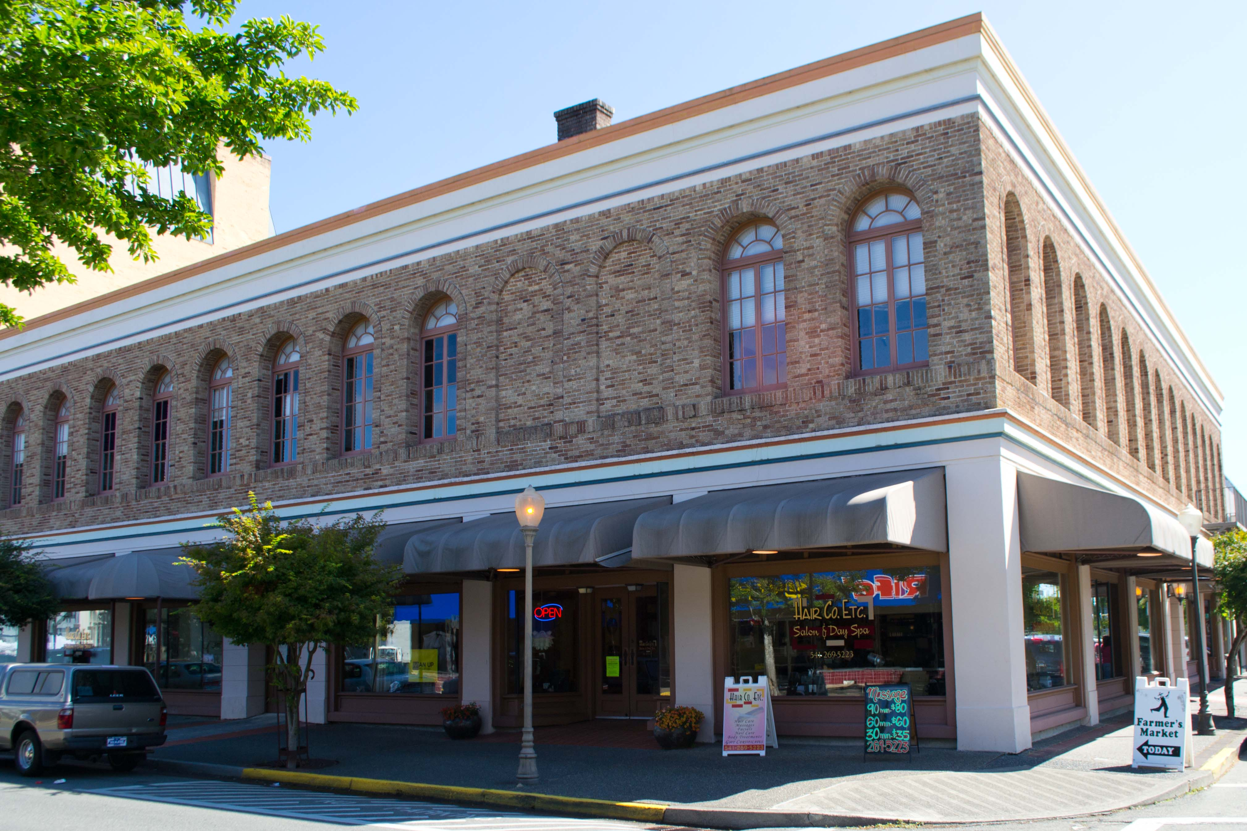 The Elks club vacated this building prior to urban renewal